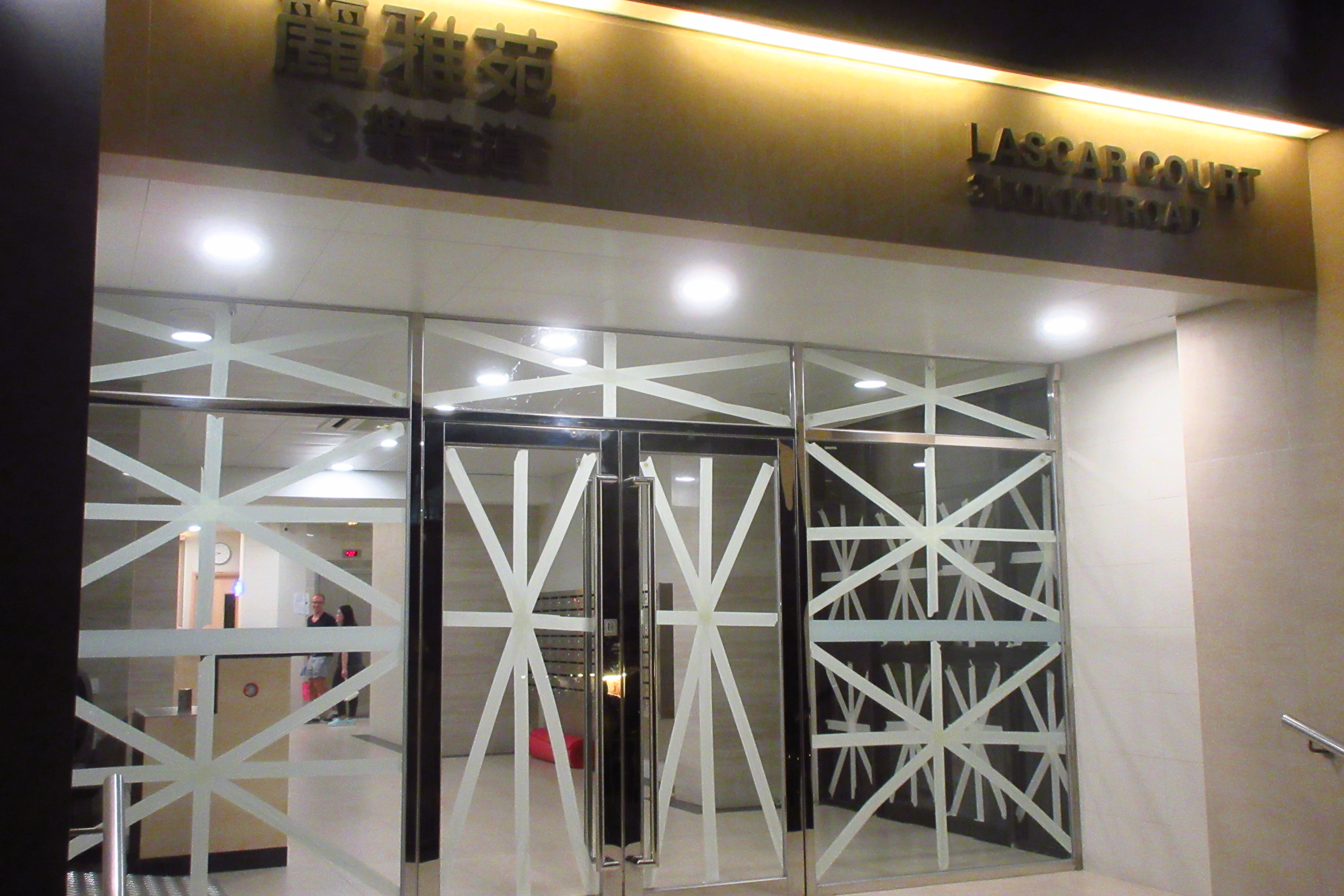 HK Sheung Wan 樂古道 3 Lok Ku Road 麗雅閣 Lascar Court glass door night before storm in Sept 2018